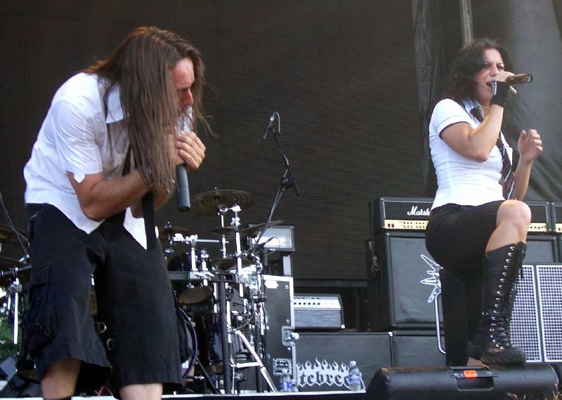 Lacunan Coil at the Ozzfest, 2006